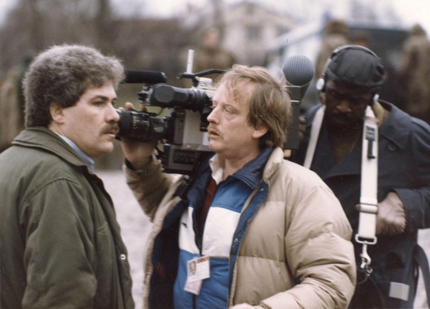 Jim Clancy, CNN reporter 1986 Germany with cameraman and sound man on assignment near Nurenberg.